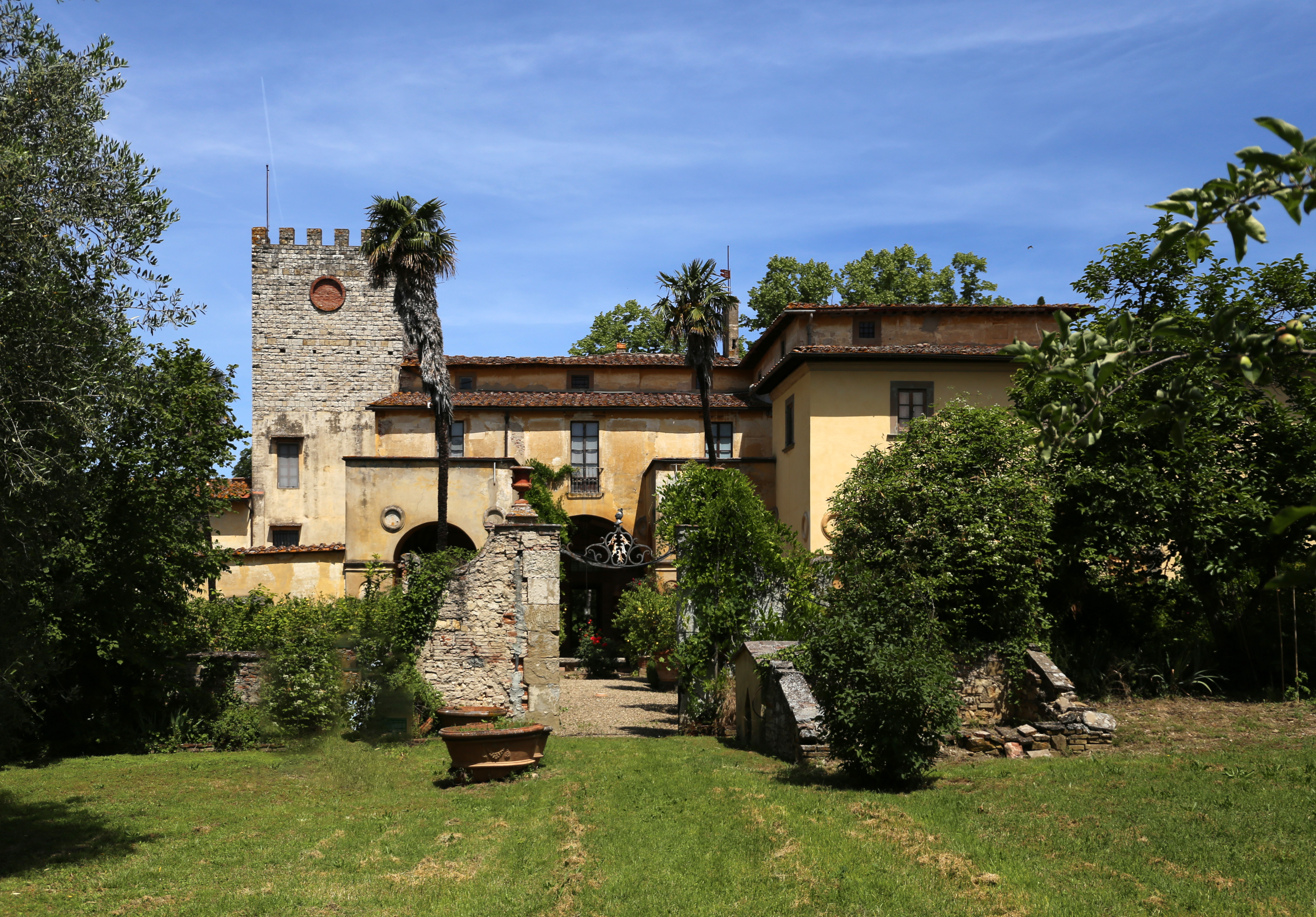 Villa Il Riposo dei Vecchietti